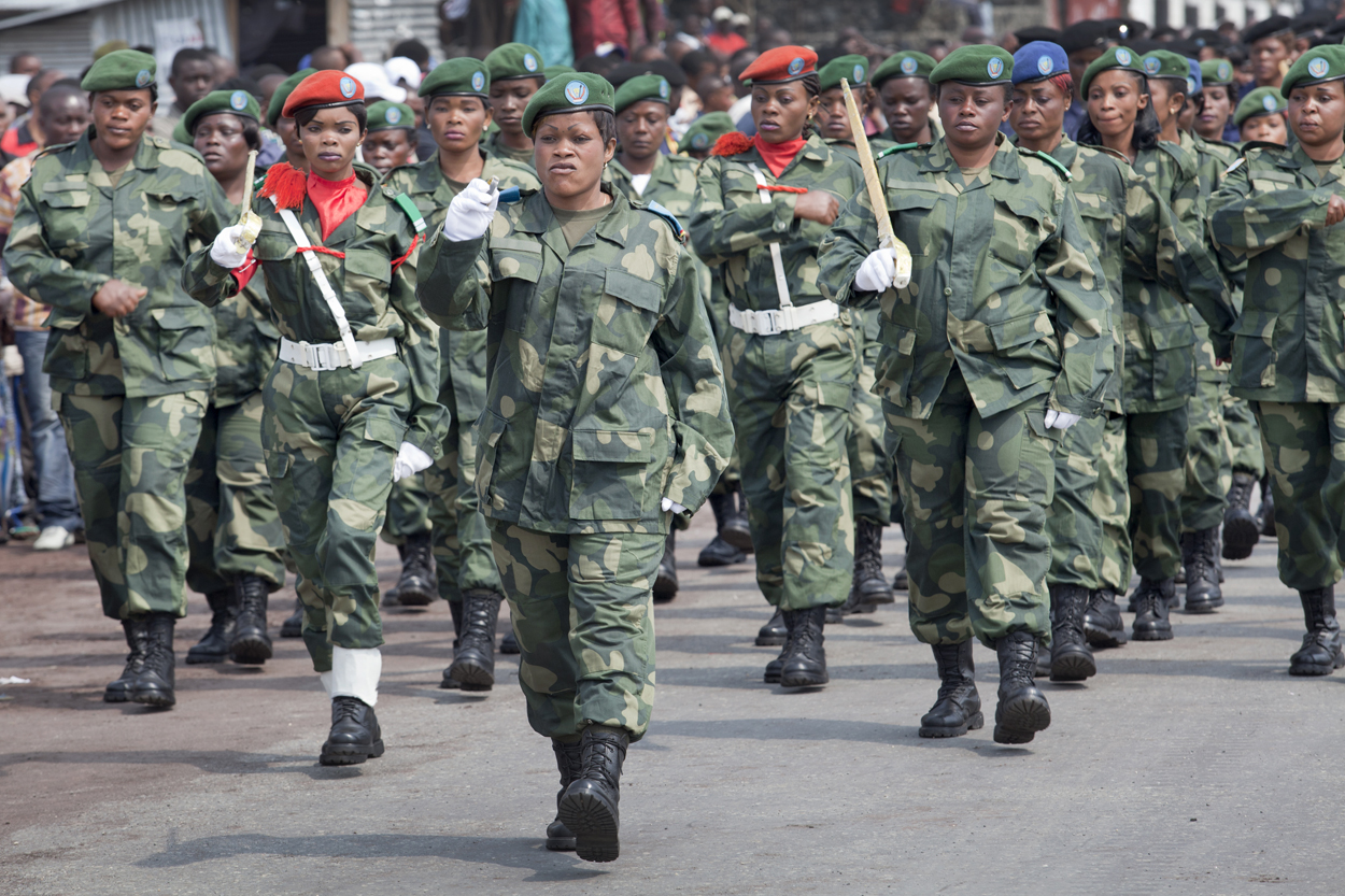 FARDC parades during International Women day in Goma the 8th of march 2012 . © MONUSCO/Sylvain Liechti